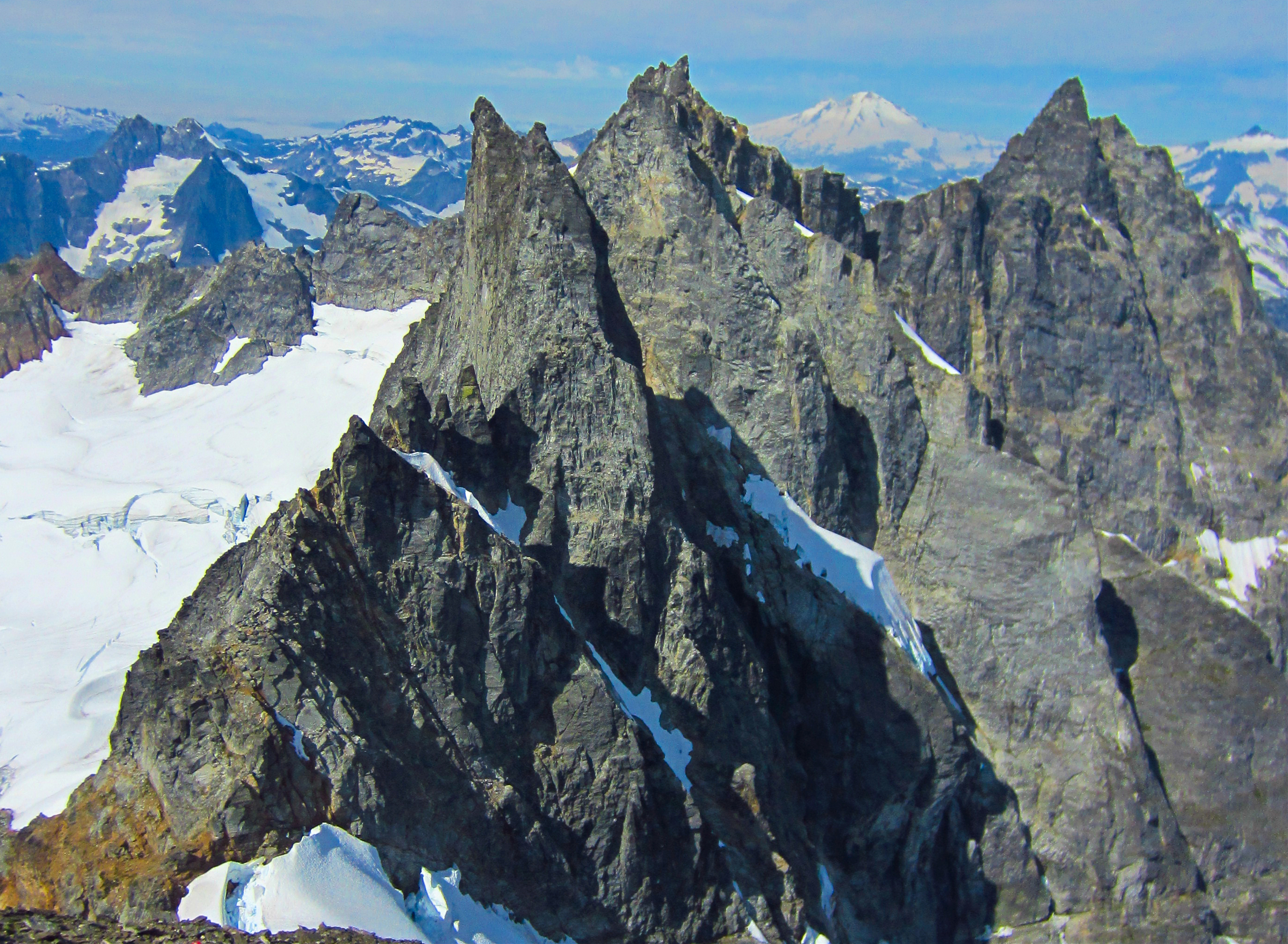 Picket range: Inspiration Peak, Mt. Degenhardt, Mt. Terror. North Cascades National Park. Viewed from West McMillan Spire area